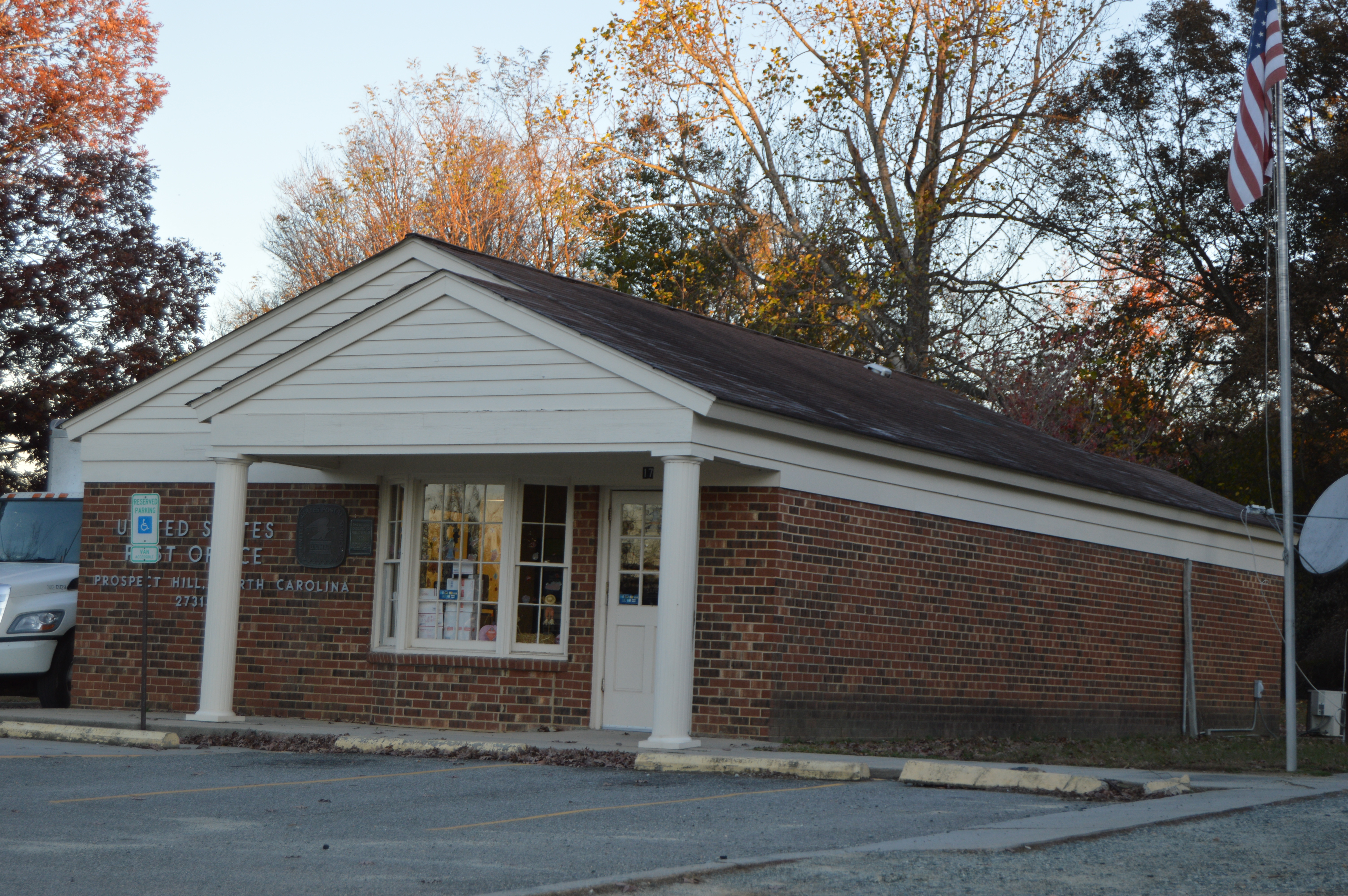 Front of the Prospect Hill post office, located at 17 Main Street in Prospect Hill, North Carolina, United States.